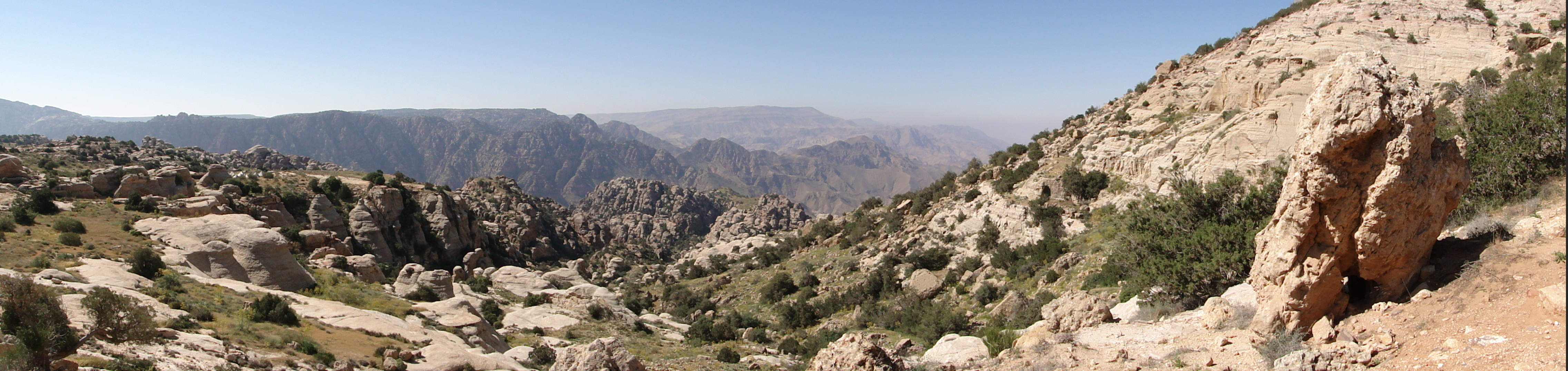 Landscape of Dana Biosphere Reserve, Jordan